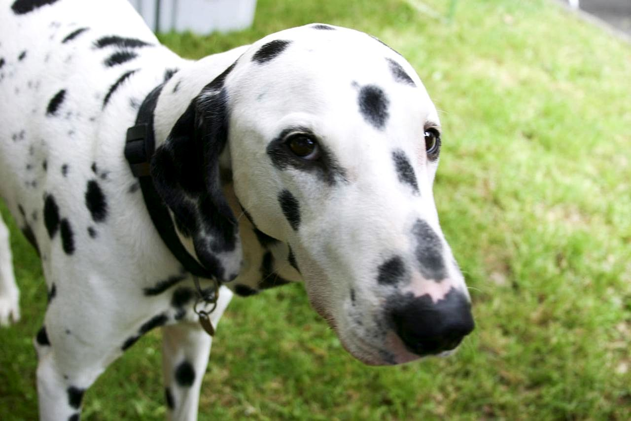 Image title: Dalmatian dog Image from Public domain images website